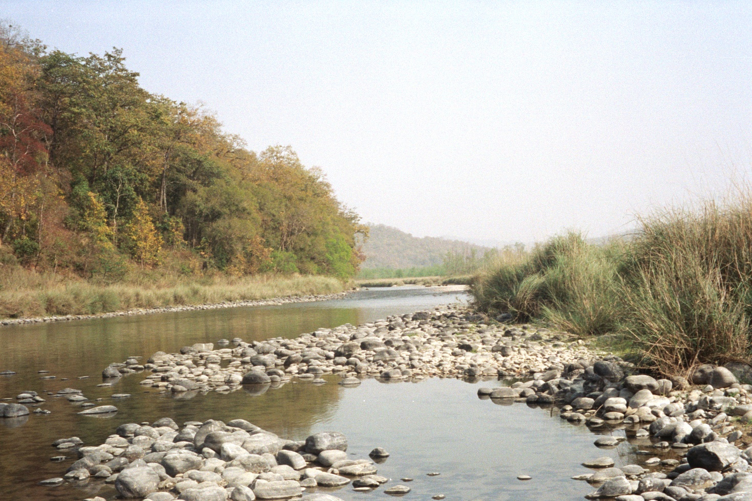 Picture shows a river in Corbett National Park in India in March 2004. Author: Bodenseemann